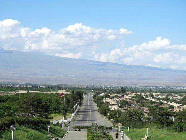 Araks village as seen from Sardarapat memorial with the village of Sardarapat in the background.